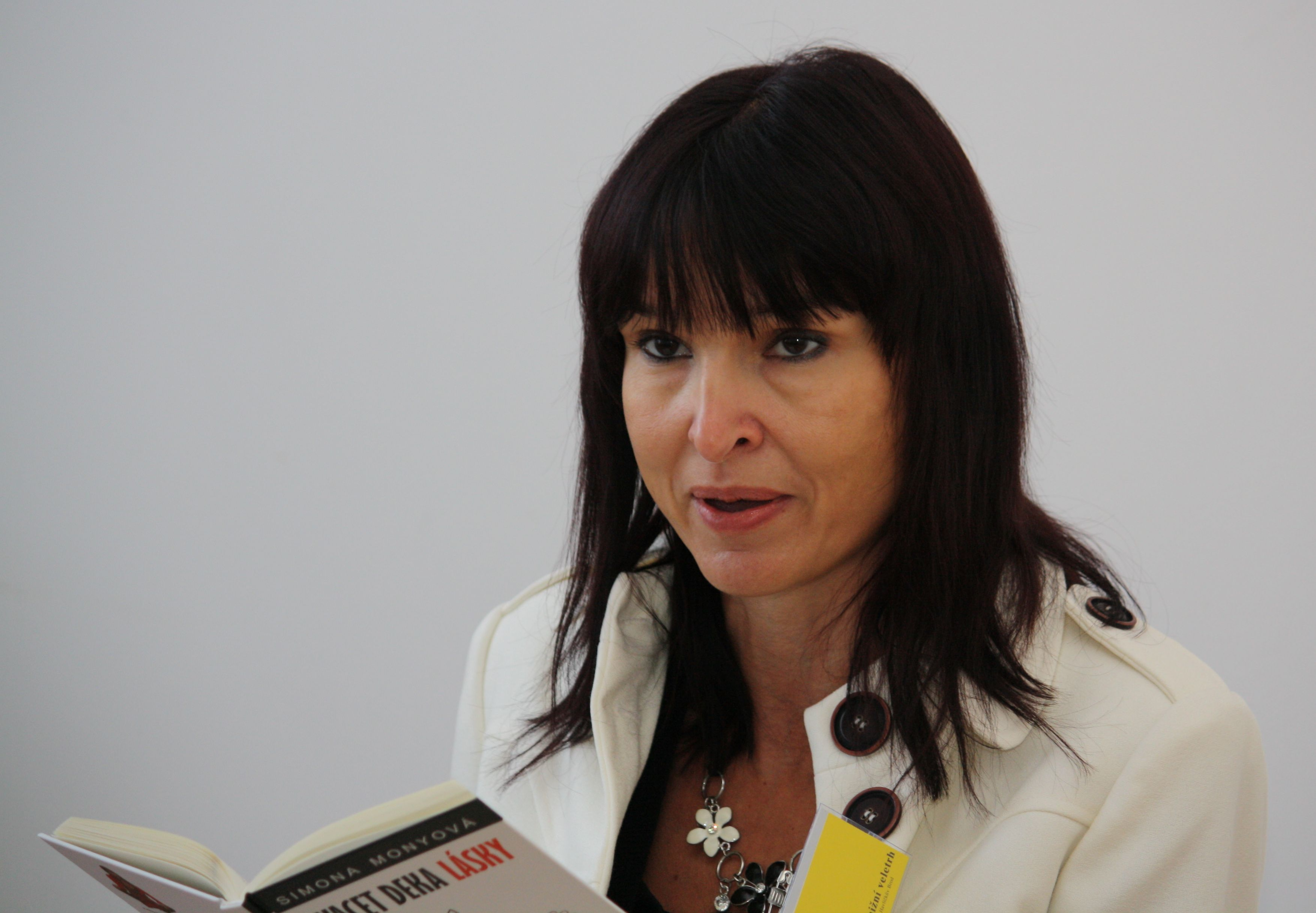 Simona Mony(ová). 20th Autumn Book Fair in Havlíčkův Brod, Czech Republic This photograph was taken with a DSLR from WMCZ's Camera grant. Personality rights warningAlthough this work is freely licensed or in the public domain, the person(s) shown may have rights that legally restrict certain re-uses unless those depicted consent to such uses. In these cases, a model release or other evidence of consent could protect you from infringement claims.